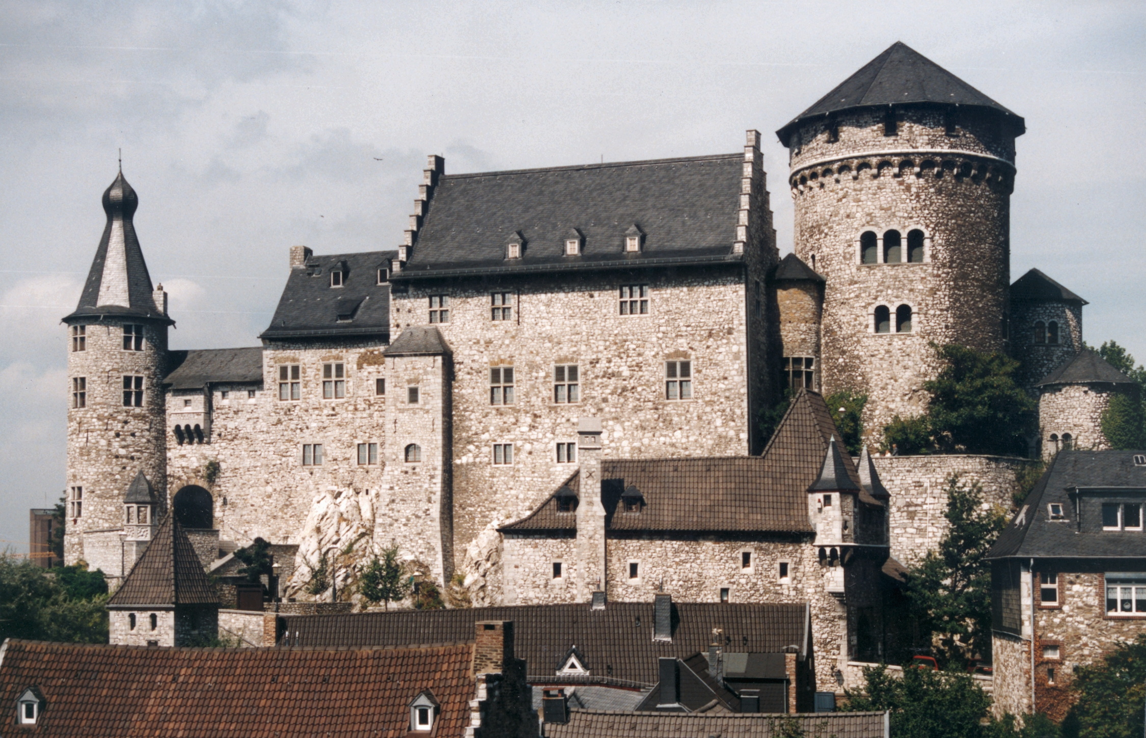 Castle of Stolberg, southern aspect